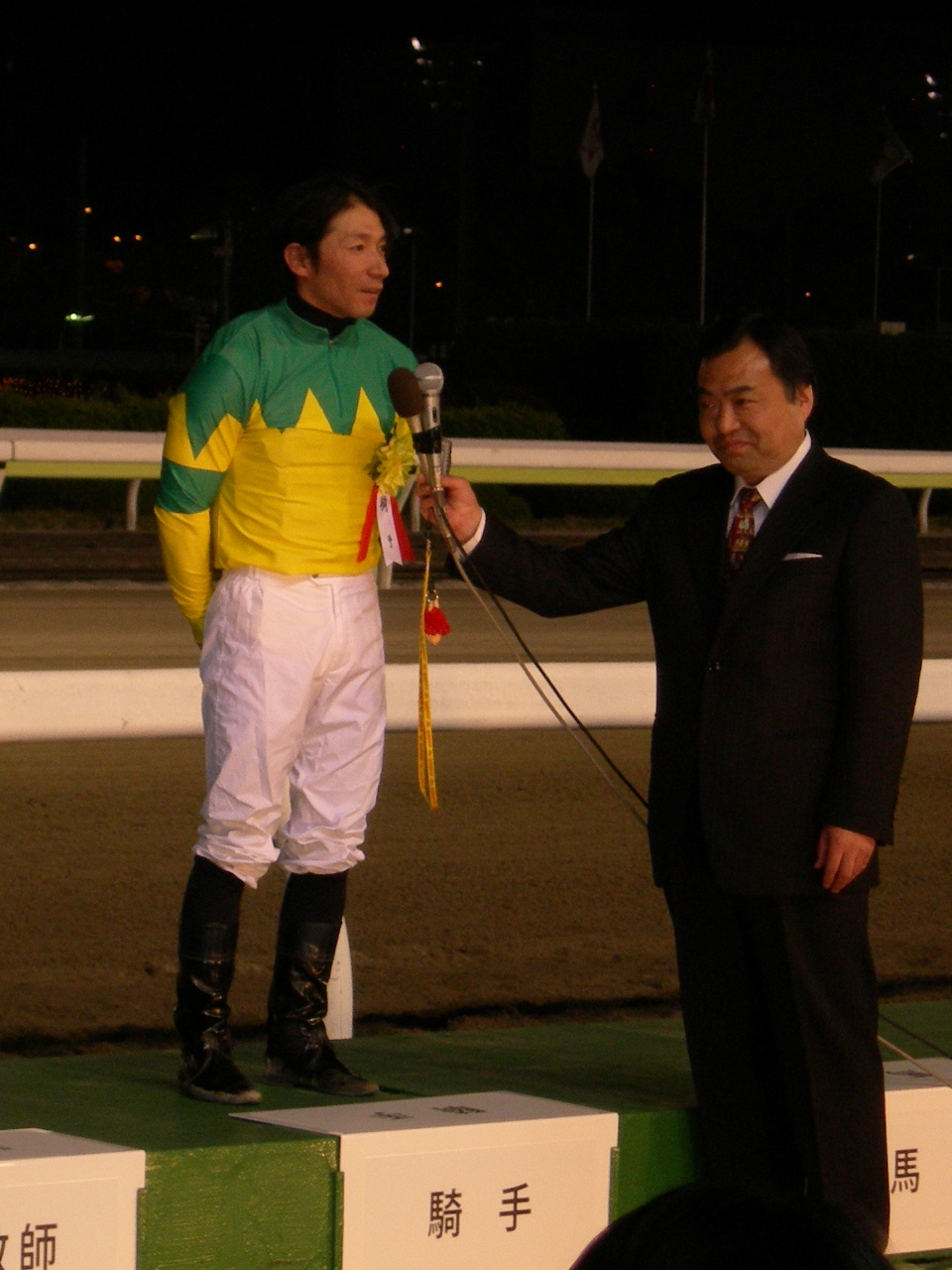 Hiroyuki Uchida (Jockey from Japan). Taken in 2009.